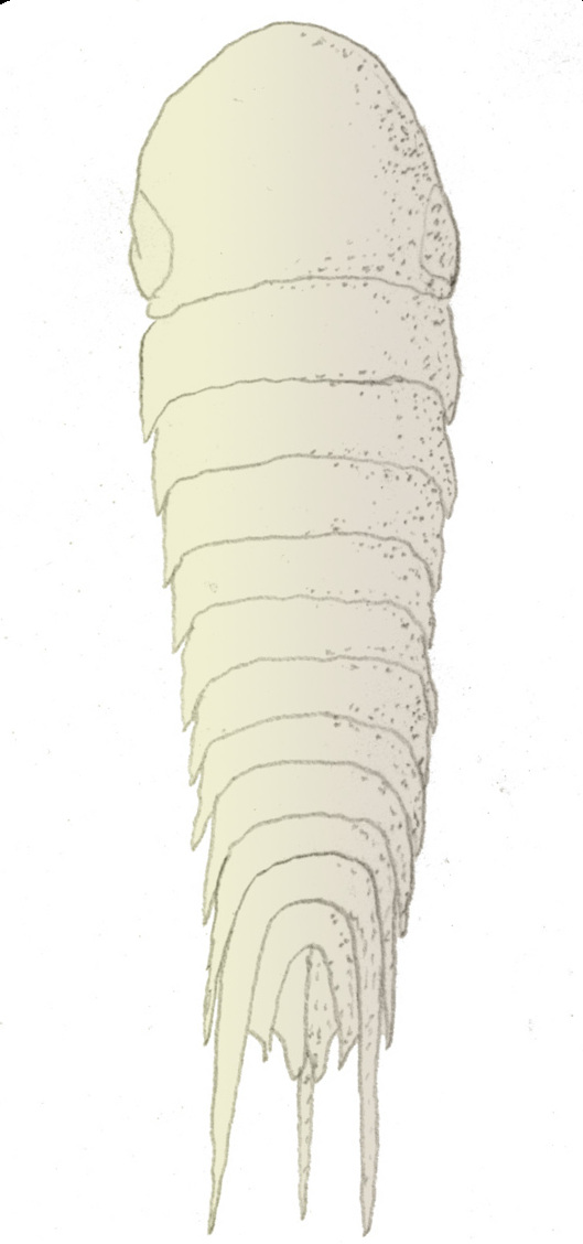 Reconstruction of Acanthomeridion, an extinct arthropod